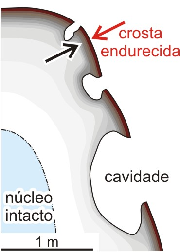 Case hardening principle